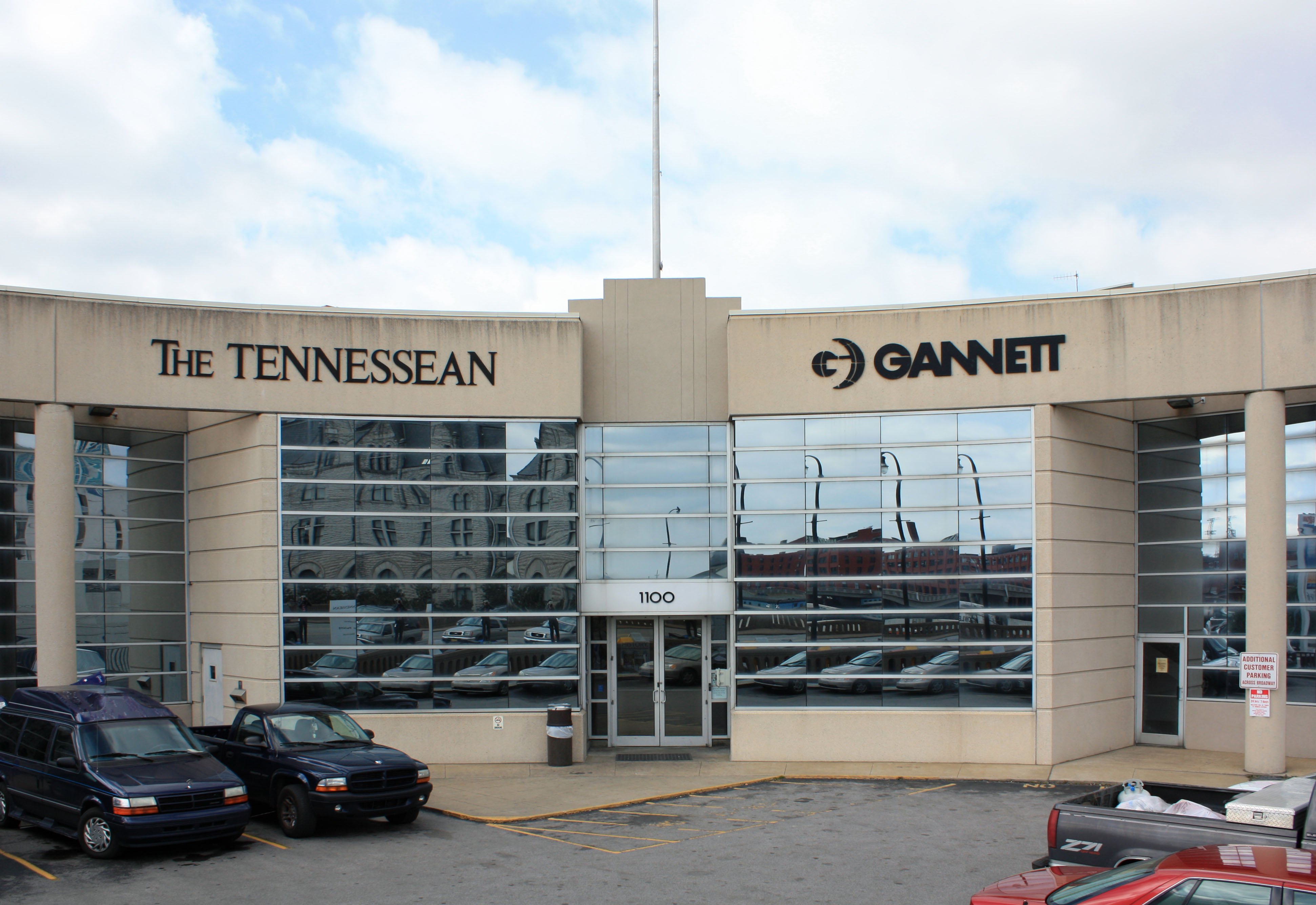 Office of The Tennessean newspaper in Nashville, Tennessee